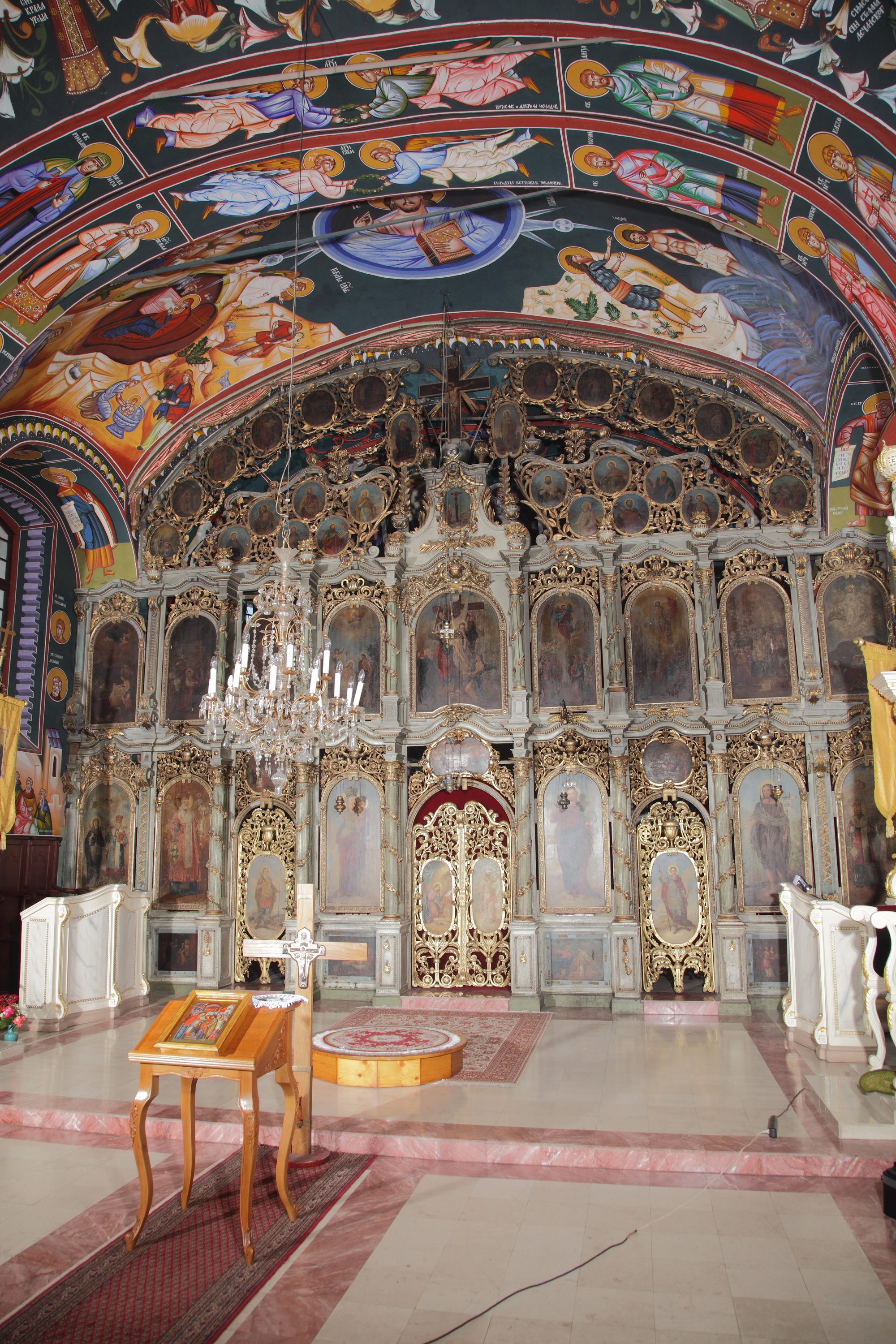 Serbian Orthodox church of the Presentation of Blessed Virgin Mary in Zrenjanin - iconostasis